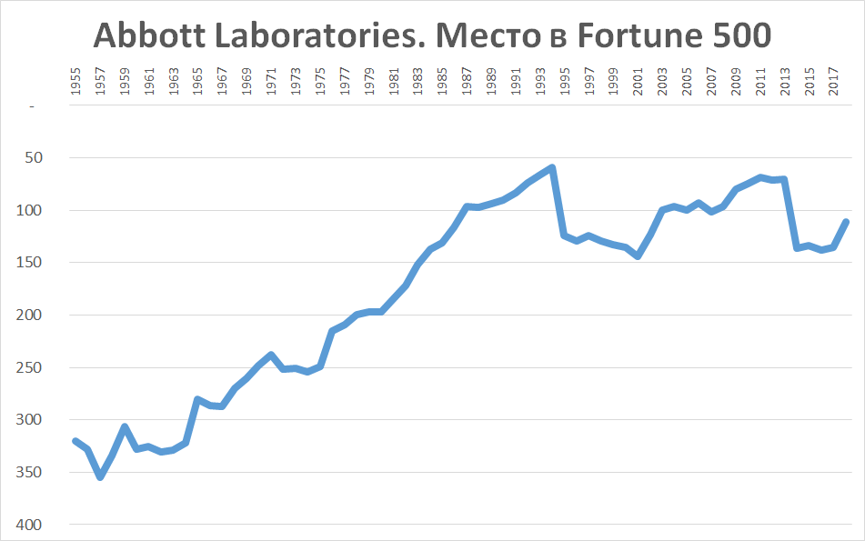 Rank of Abbott Laboratories in Fortune 500 (1955-2018) Sources